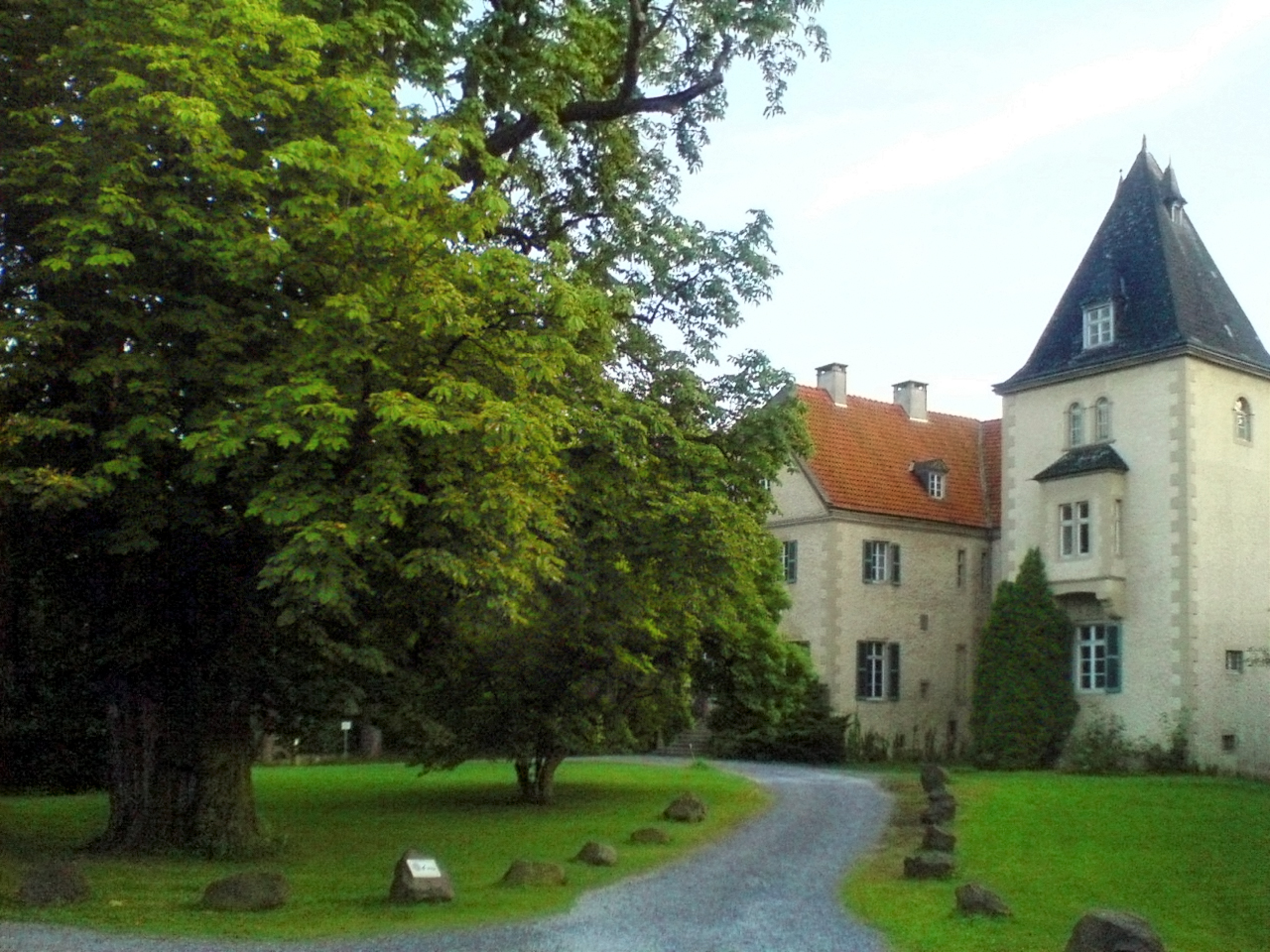 Buckeye in front of House Ruhr, Schwerte